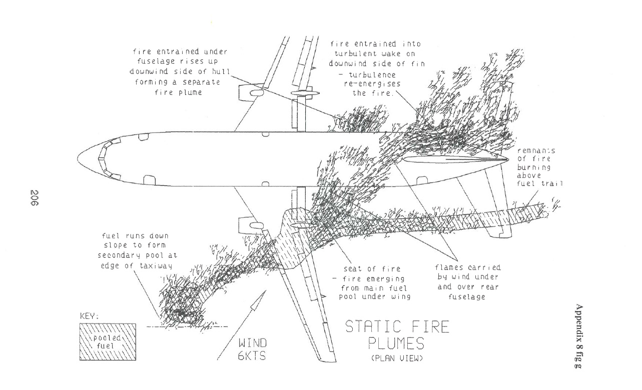 From official UK AAIB report 8/88 of British Airtours Flight 28M. This is an illustration (sketch) from Appendix 8, figure g, showing the pattern of fuel leakage and pooling and flames covering the rear of the aircraft, resulting from burning fuel and wind.